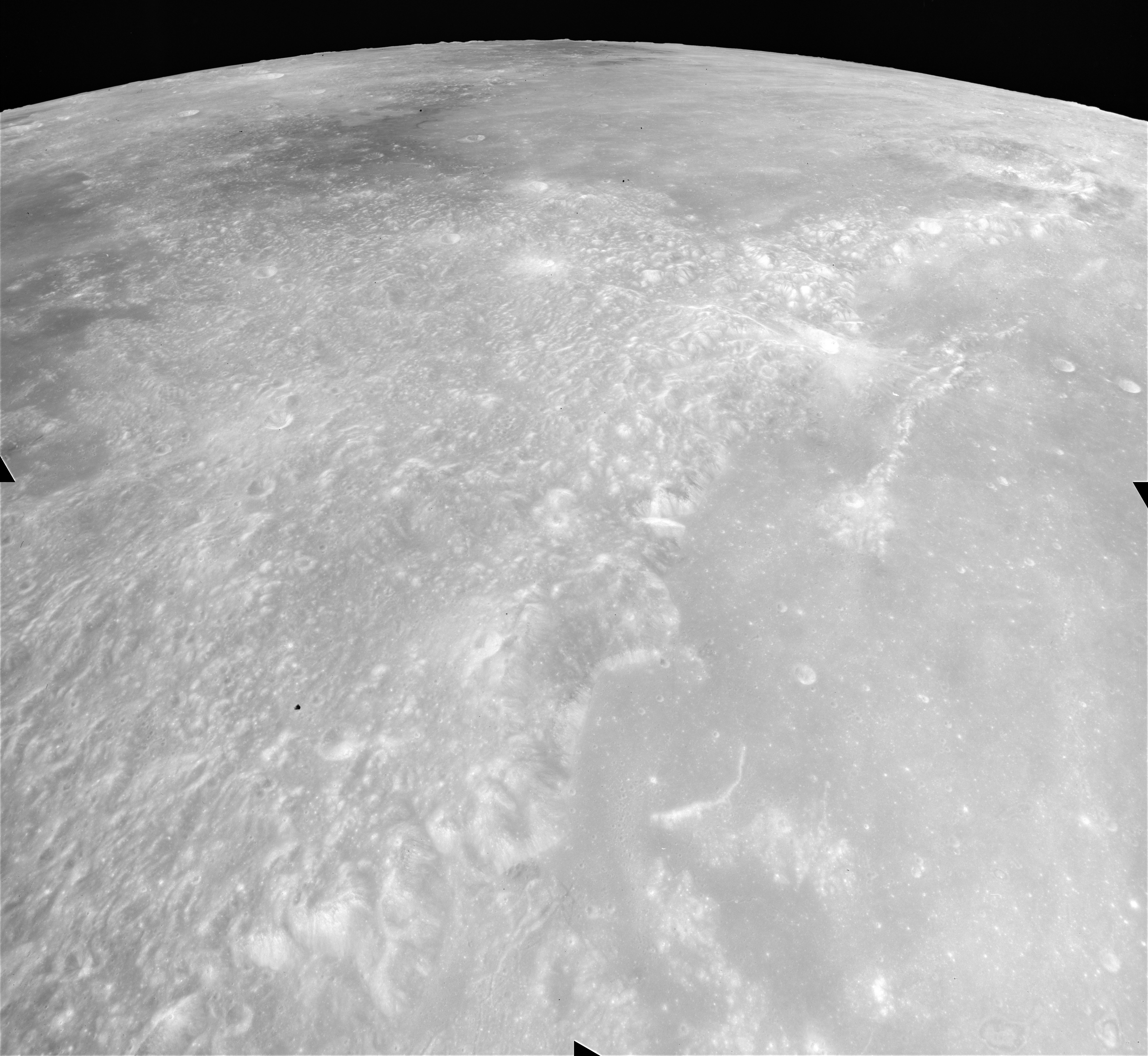 Oblique view of southern Montes Apenninus, facing south from an altitude of 115 km, on revolution 71 of the Apollo 15 mission. Eratosthenes is in upper right corner.